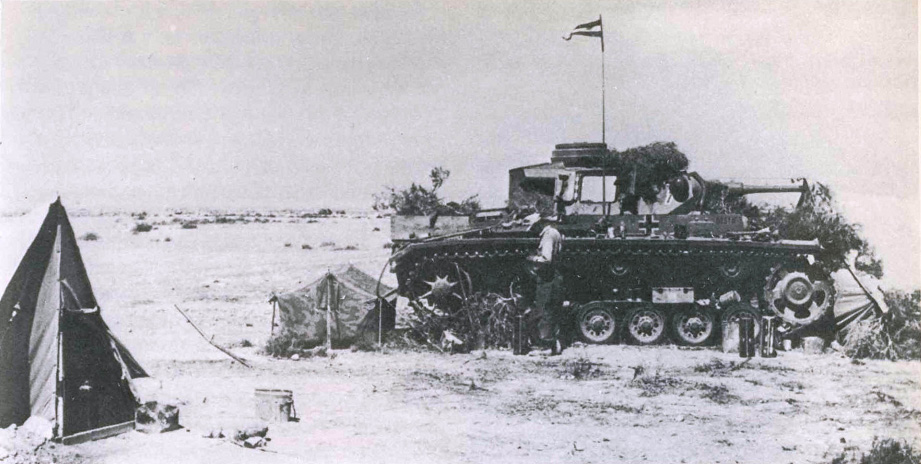 Camouflaged PzKmpw III command vehicle. In desert position some 45 kilometers west of Gazala, Libya. (US National Archives)